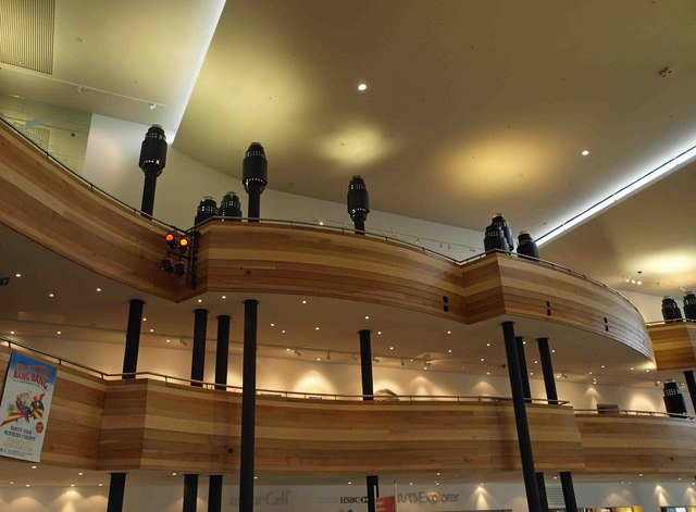 Inside The Millennium Centre, Cardiff, Wales